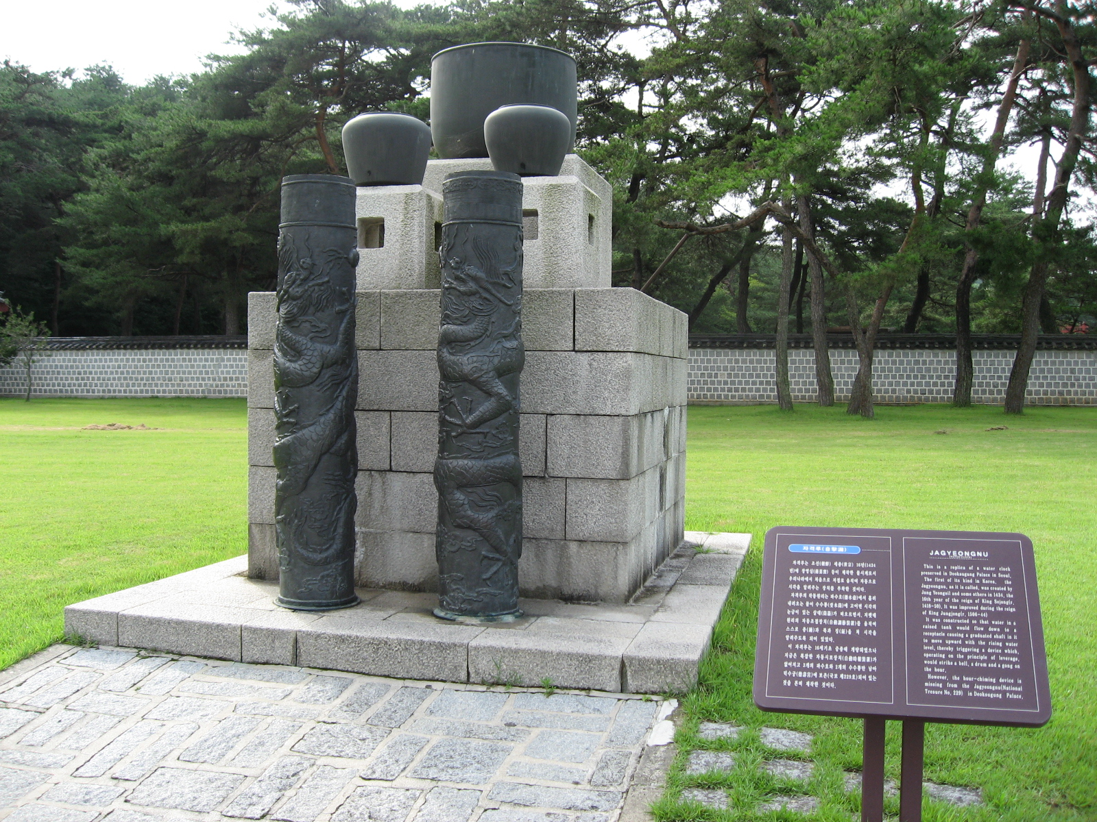 The model of an automatic water clock made in the Joseon Dynasty era. It is exhibited in the Royal museum inside Deoksugung.